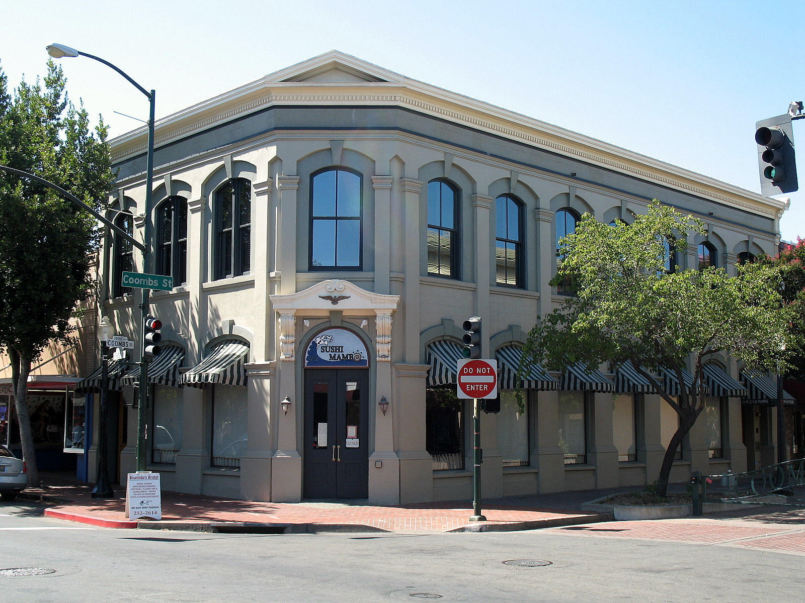 National Register of Historic Places listings in Napa County, California. Old Napa Register Building, 1202 1st St., Napa, California